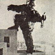 A rare photo of the allegedly lost film King Kong Appears in Edo (Edo ni Arawareta Kingu Kongu), 1938. Found at . Note: There is it marked as a 1933 film at